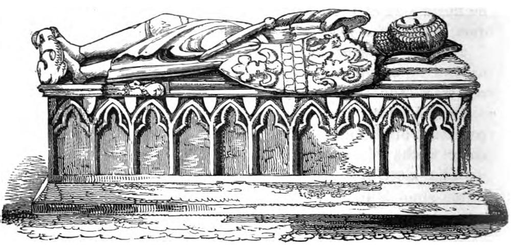 St Mary's Church, Ilkeston, Derbyshire, recumbent effigy and chest tomb of Sir Nicholas de Cantilupe (d.1266) of Withcall in Lincolnshire, Greasley in Nottinghamshire and Ilkeston in Derbyshire, who married Eustachia FitzHugh, daughter and heiress of Ralph FitzHugh of Greasley. His son was William de Cantilupe, 1st Baron Cantilupe (1262-1308) of Greasley and of Ravensthorpe Castle in the parish of Boltby, North Yorkshire.